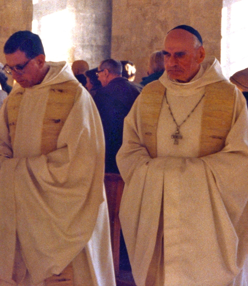 Dom Paul Grammont (1911-1989), 46th Abbot in the church of the Abbey Notre-Dame du Bec. At his right, Brother Jean-Baptiste Gourion.